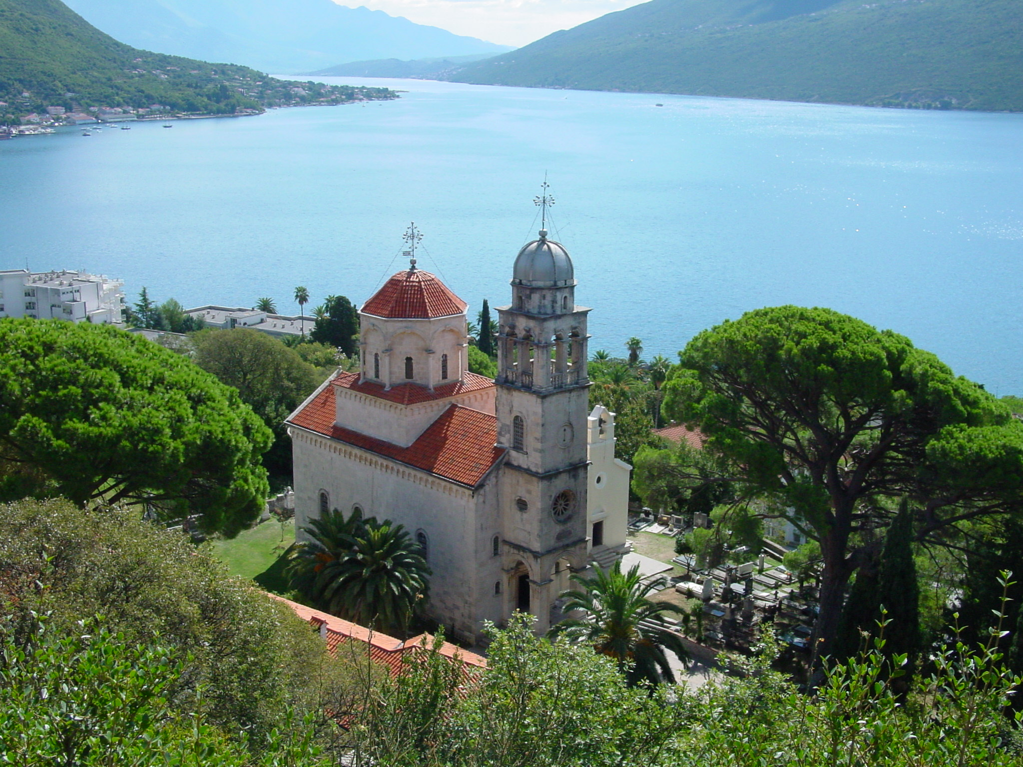 Savina Monastery, Montenegro Srpski (latinica): Manastir Savina, Crna Gora